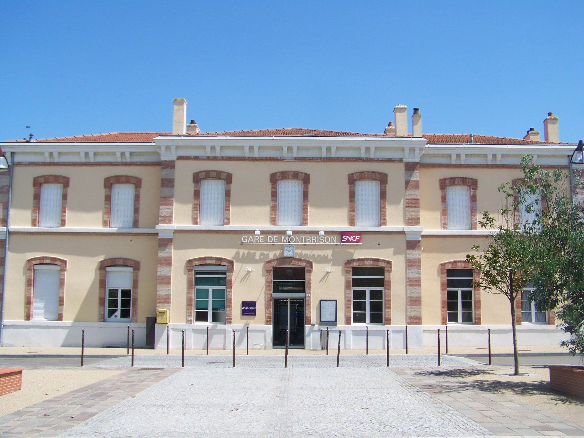 Building of Montbrison railway station in departement of Loire in France.